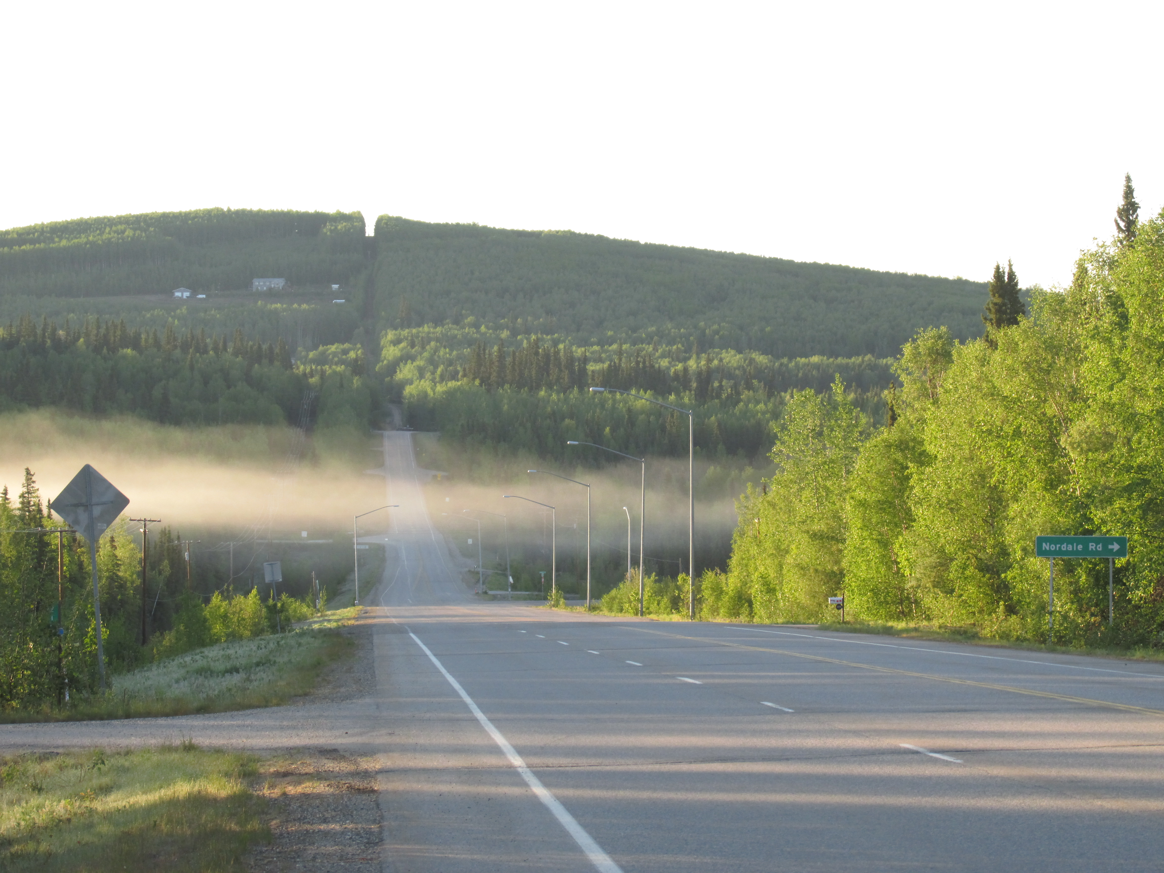 View of Chena Hot Springs Road, eastbound at mile 6, in the Steele Creek CDP of the Fairbanks North Star Borough, Alaska. Towards the bottom of the hill to the right is the intersection of Nordale Road. This road is the furthest upriver public road crossing of the Chena River, which provides access to the Badger CDP, North Pole and the military installations (Eielson Air Force Base and Fort Wainwright) which flank that area.